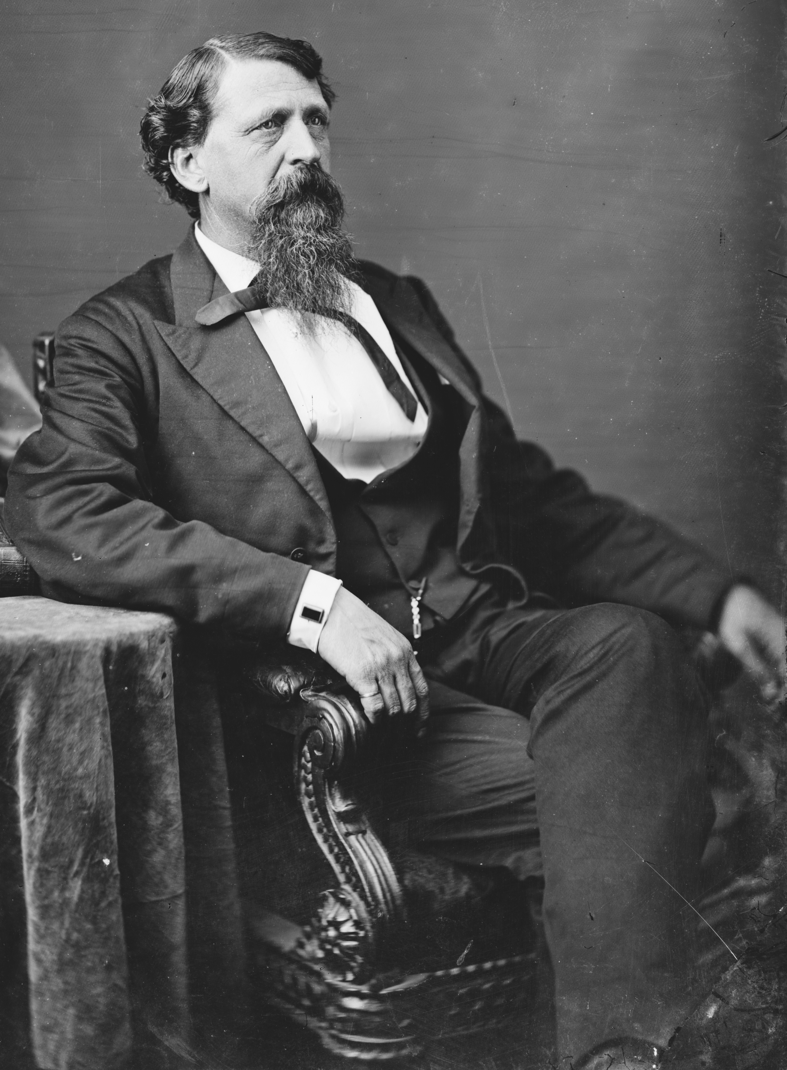 George E. Harris, US Representative from Mississippi